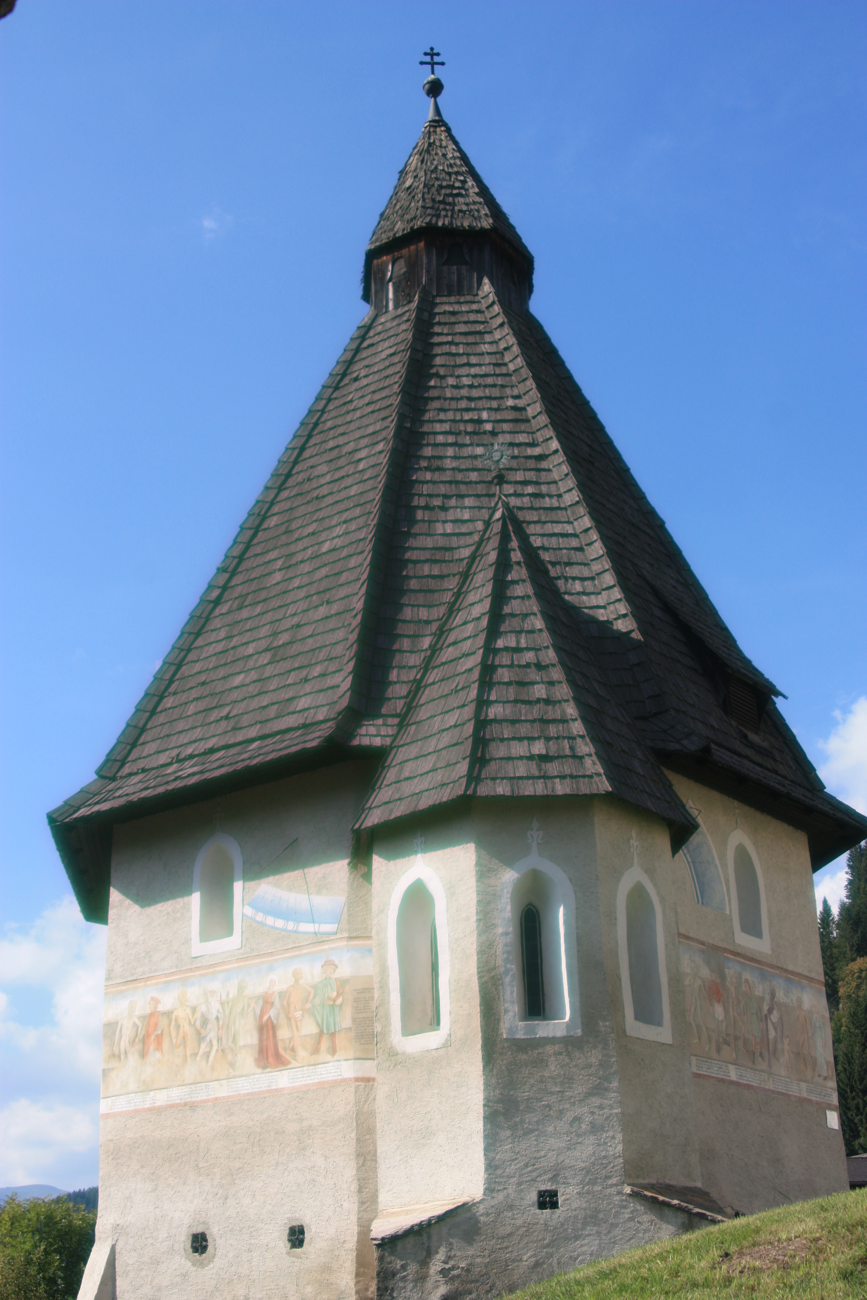 Parish church - Charnel house Locality:Metnitz Community:Metnitz